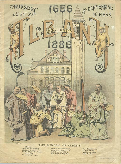 An American political parody of The Mikado celebrating Albany's bicentennial, 1686-1886. "The Mikado of Albany."